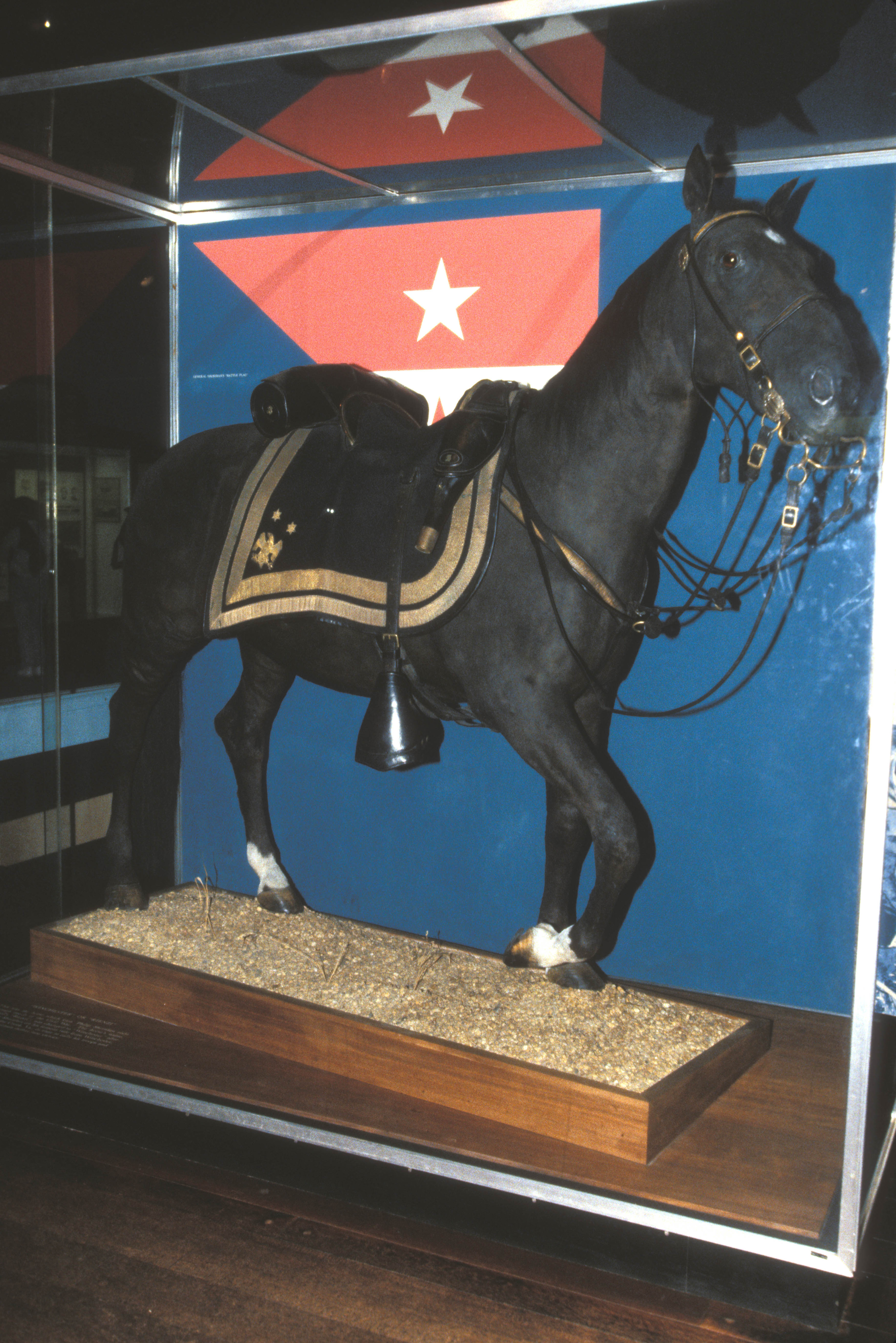 THIS IS THE ACTUAL HORSE WHICH HAS BEEN STUFFED. SHERIDAN ROAD THIS HORSE AT THE BATTLE OF CEDAR CREEK WHEN HIS GALLOP TO THE SCENE OF ACTION TURNED AN APPARENT CONFEDERATE VICTORY INTO A DEFEAT